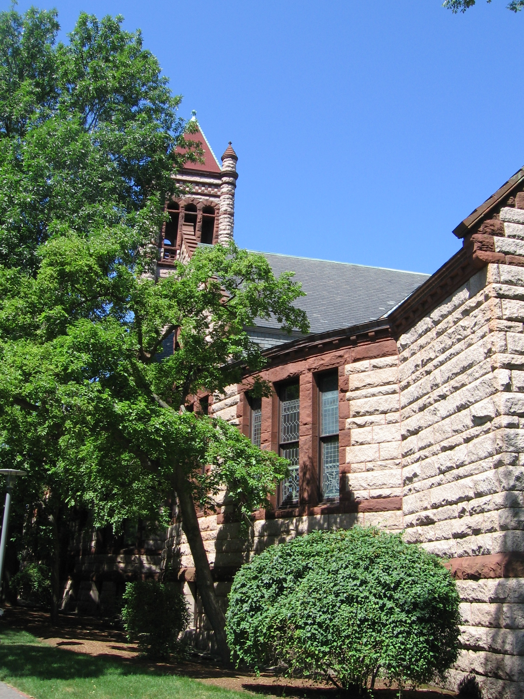 Pictures I took in Boston during Wikimania2006. Please consult me before using pictures that depicts persons.